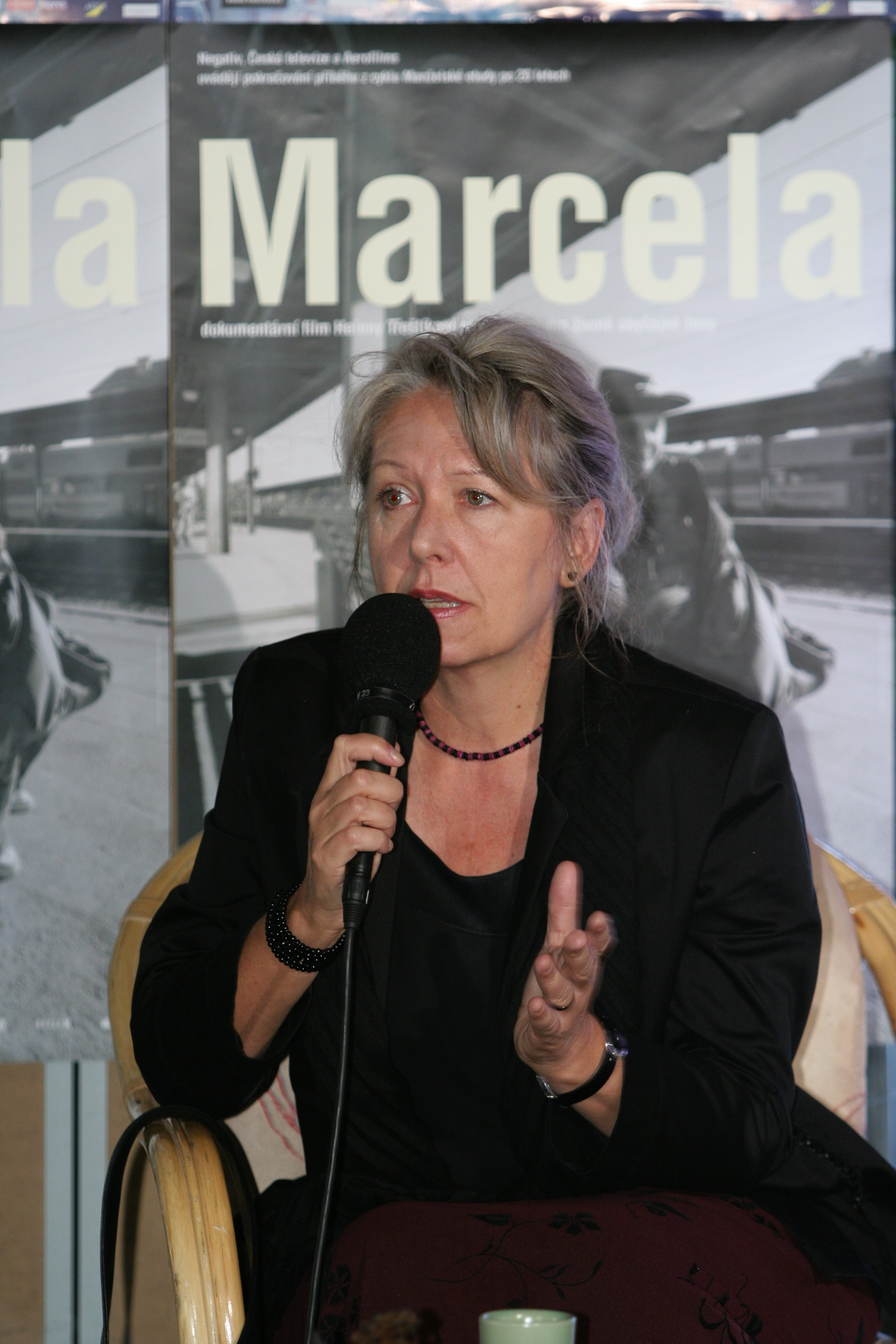 Helena Třeštíková at 42nd Karlovy Vary International Film Festival